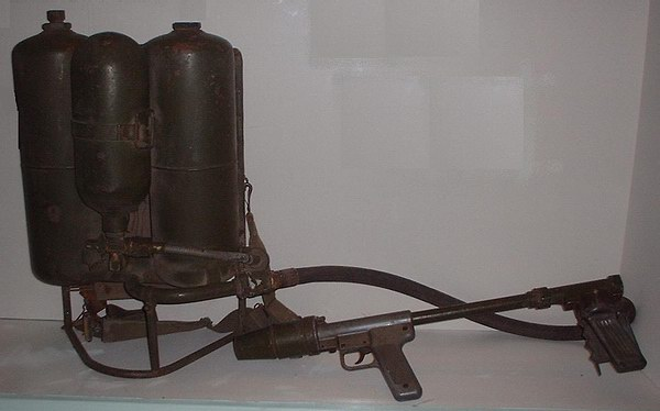 Picture taken during visit to Virginia War Museum, March 14, 2006